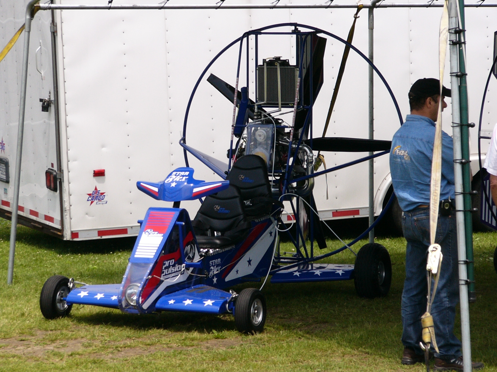 A Para-Ski Star-Flex powered parachute carriage at the Canadian Aviation Expo 2004